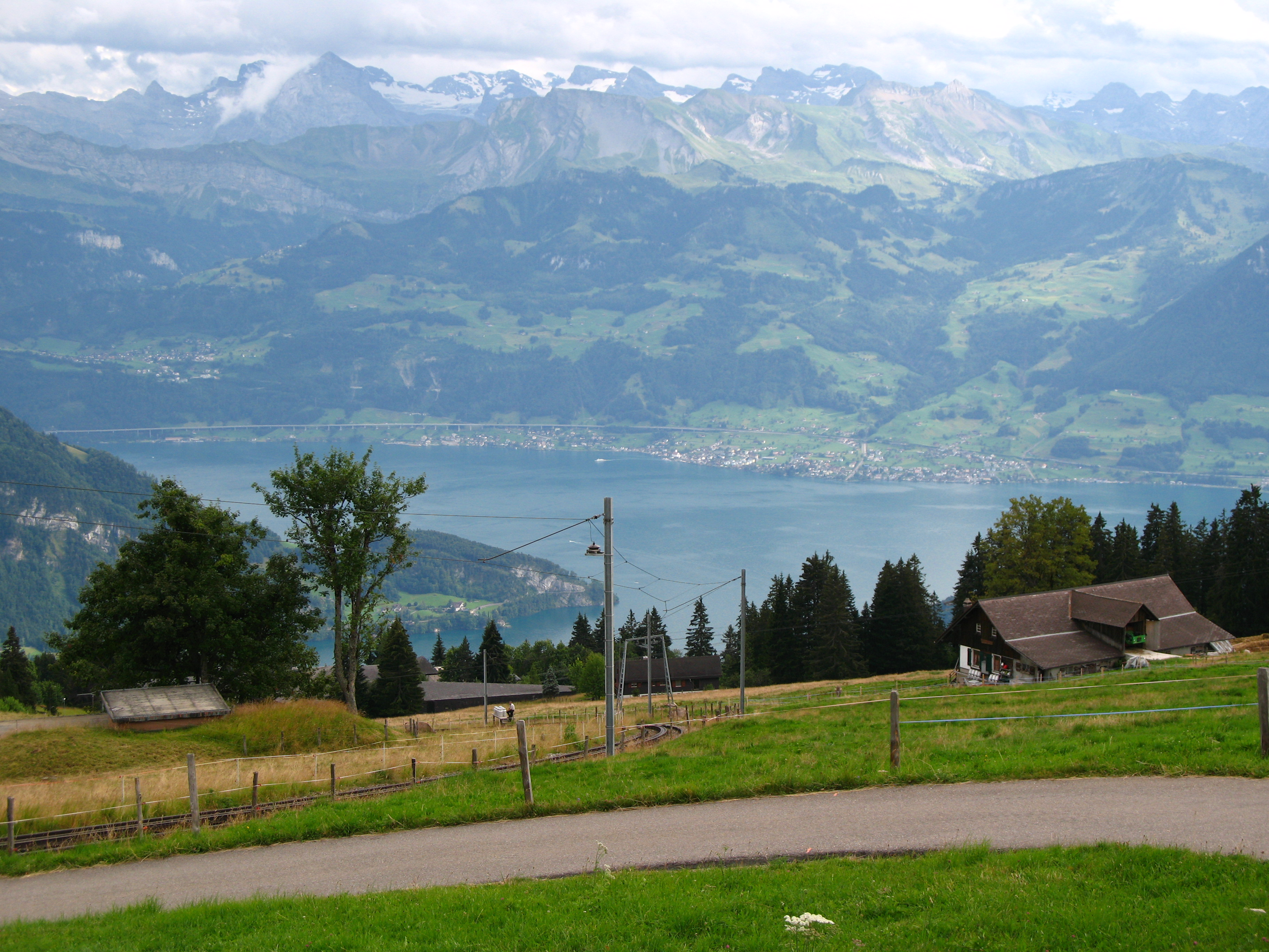 Beckenried viewed from near Rigi Staffel Heights, Rigi, Switzerland